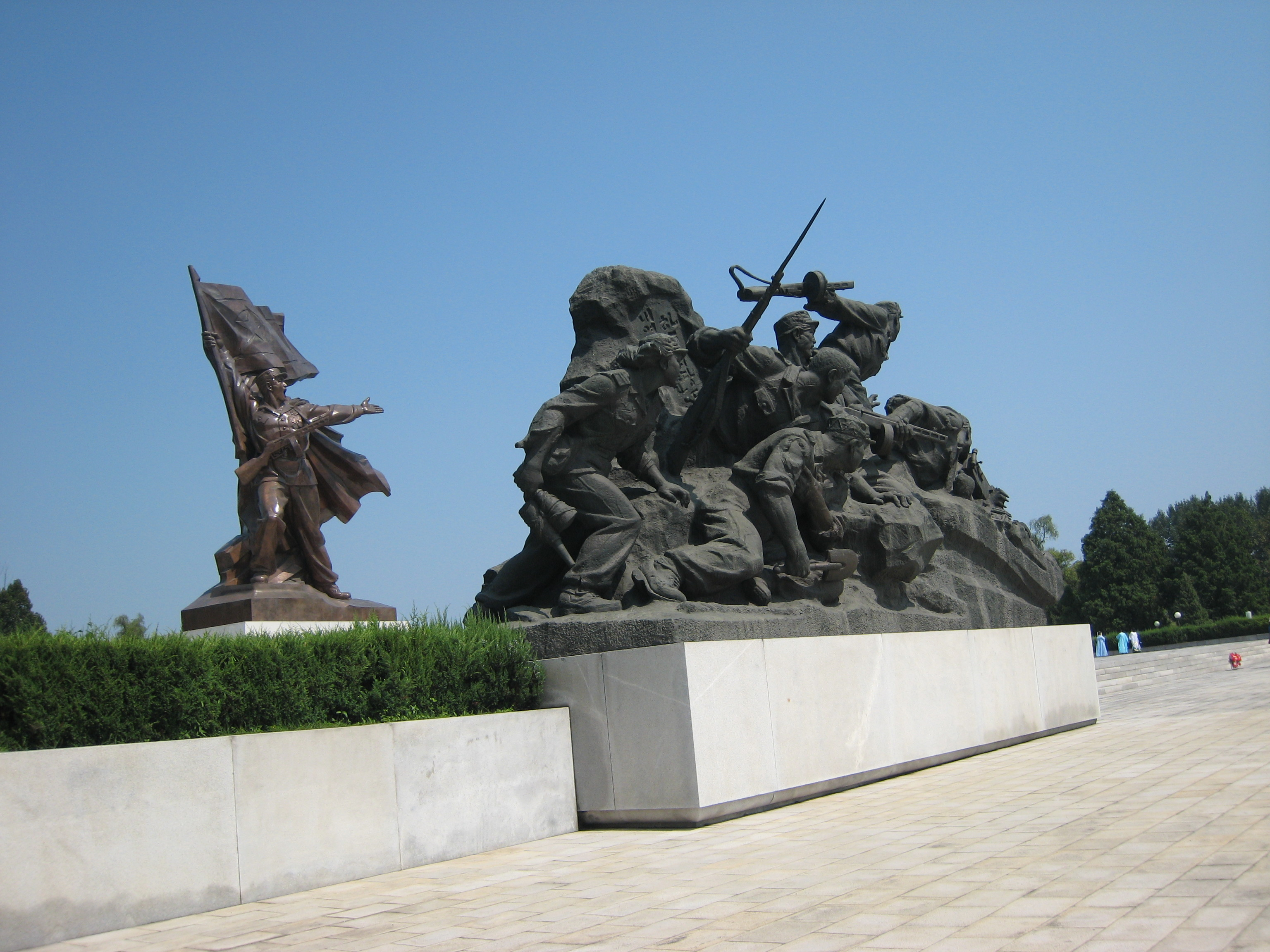 Monument to the Victorious Fatherland Liberation War - Pyongyang.